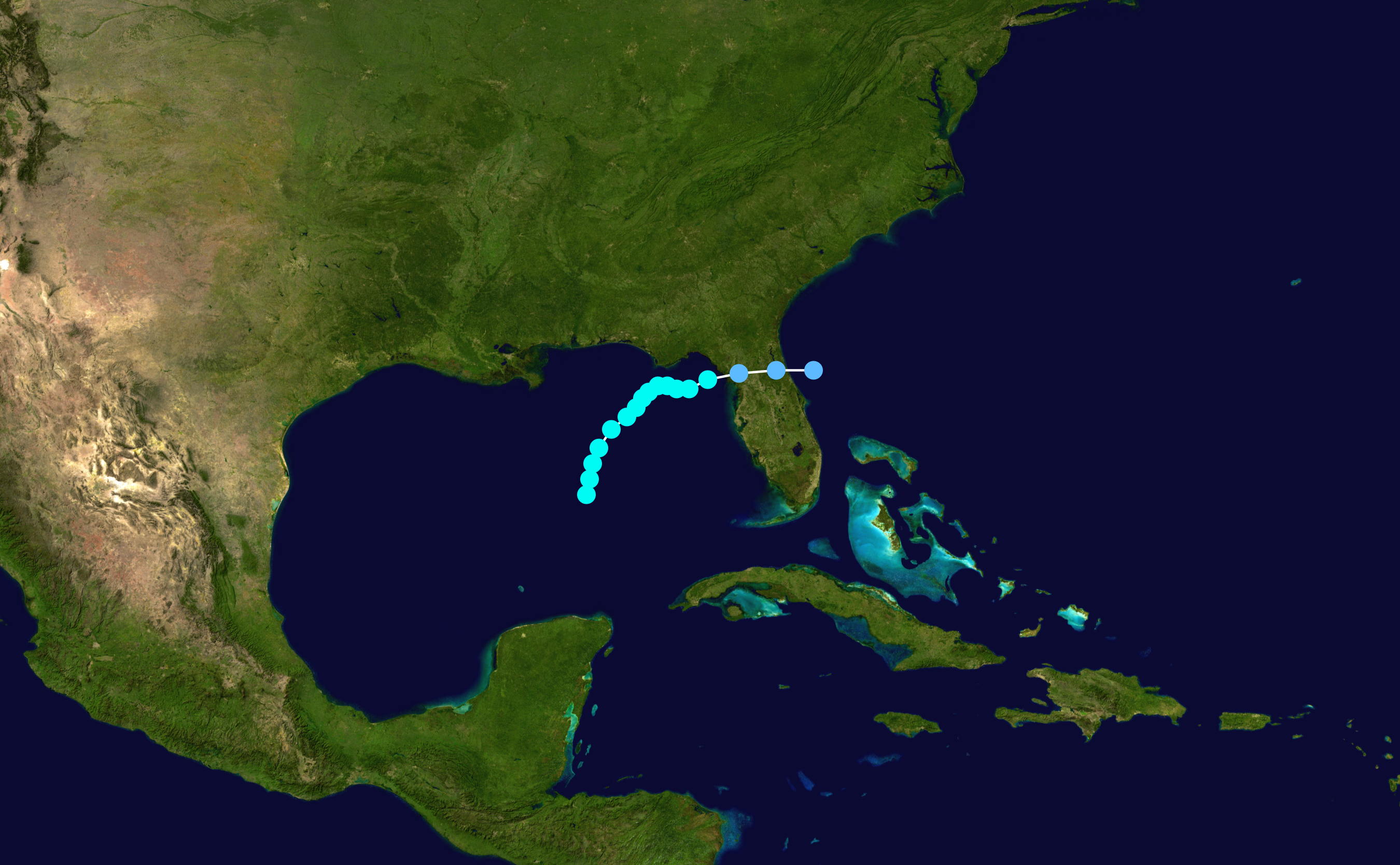 Track map of Tropical Storm Debby of the 2012 Atlantic hurricane season. The points show the location of the storm at 6-hour intervals. The colour represents the storm's maximum sustained wind speeds as classified in the Saffir–Simpson scale (see below), and the shape of the data points represent the nature of the storm, according to the legend below. Saffir–Simpson scale Tropical depression≤38 mph≤62 km/h Category 3111–129 mph178–208 km/h Tropical storm39–73 mph63–118 km/h Category 4130–156 mph209–251 km/h Category 174–95 mph119–153 km/h Category 5≥157 mph≥252 km/h Category 296–110 mph154–177 km/h Unknown Storm type Tropical cyclone Subtropical cyclone Extratropical cyclone / Remnant low / Tropical disturbance / Monsoon depression